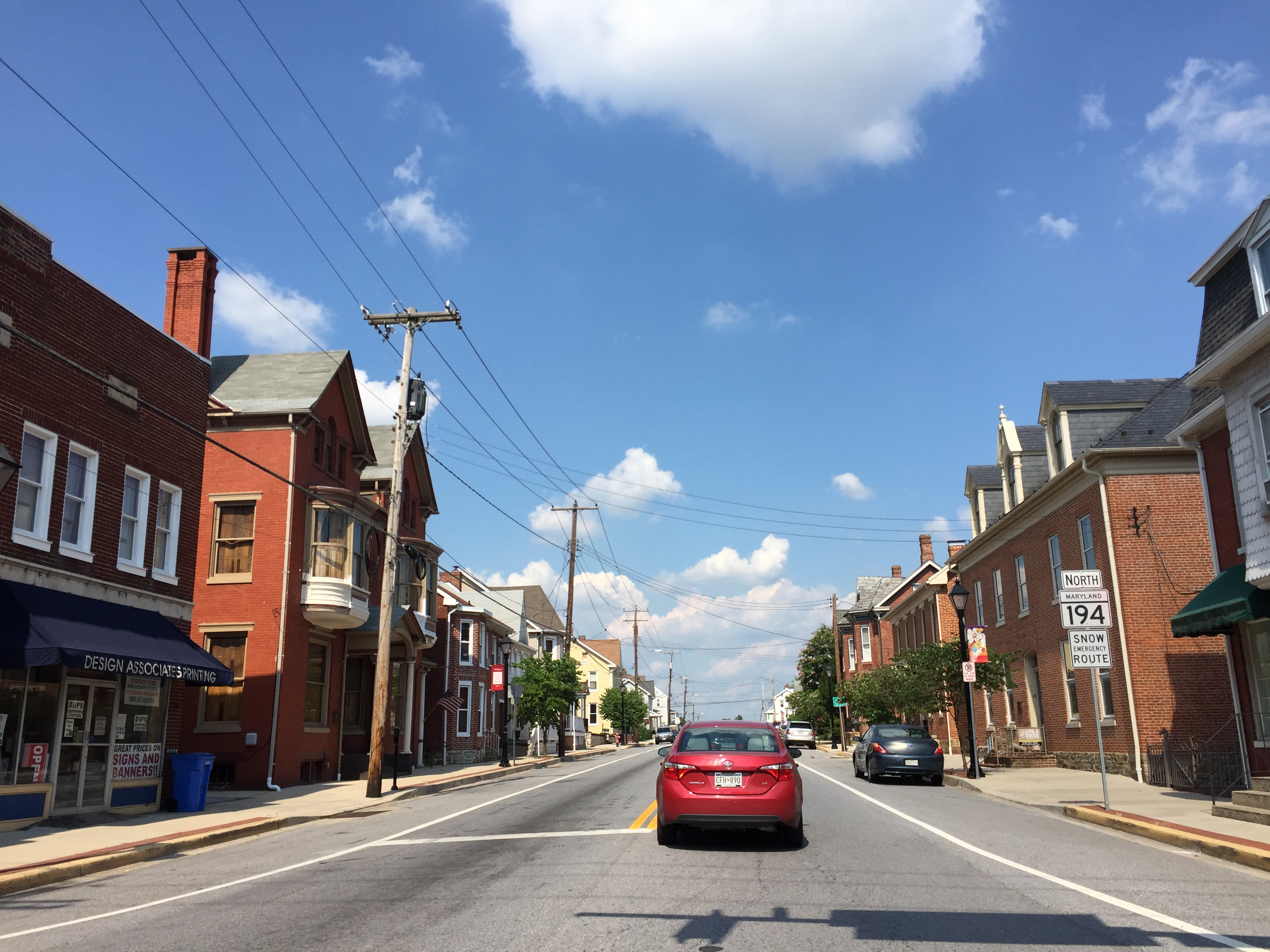 View north along Maryland State Route 194 (York Street) at Maryland State Route 140 (Baltimore Street) in Taneytown, Carroll County, Maryland